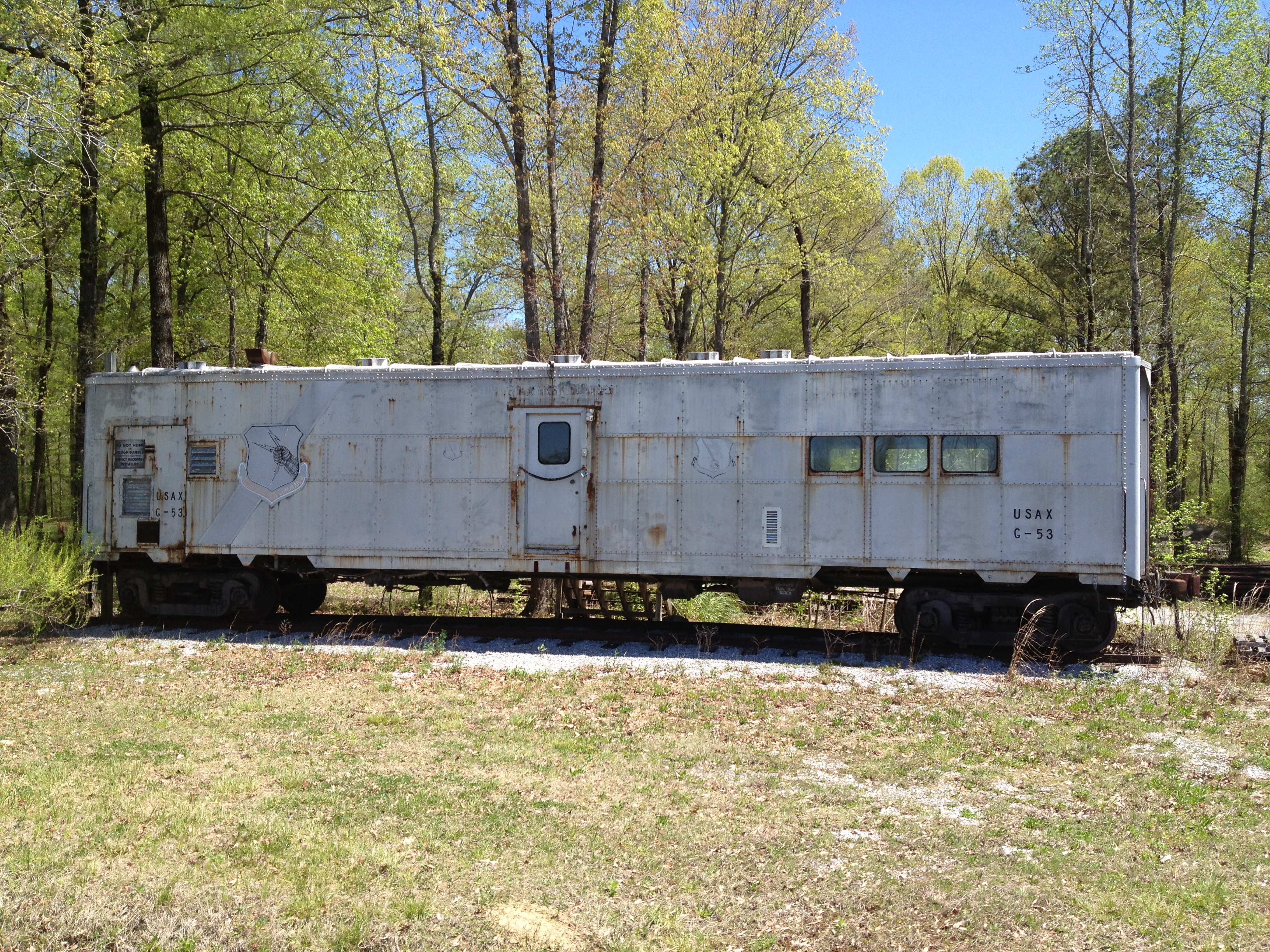 Strategic Air Command Rail Car, USAX C-53. Located at the Heart of Dixie Railroad Museum